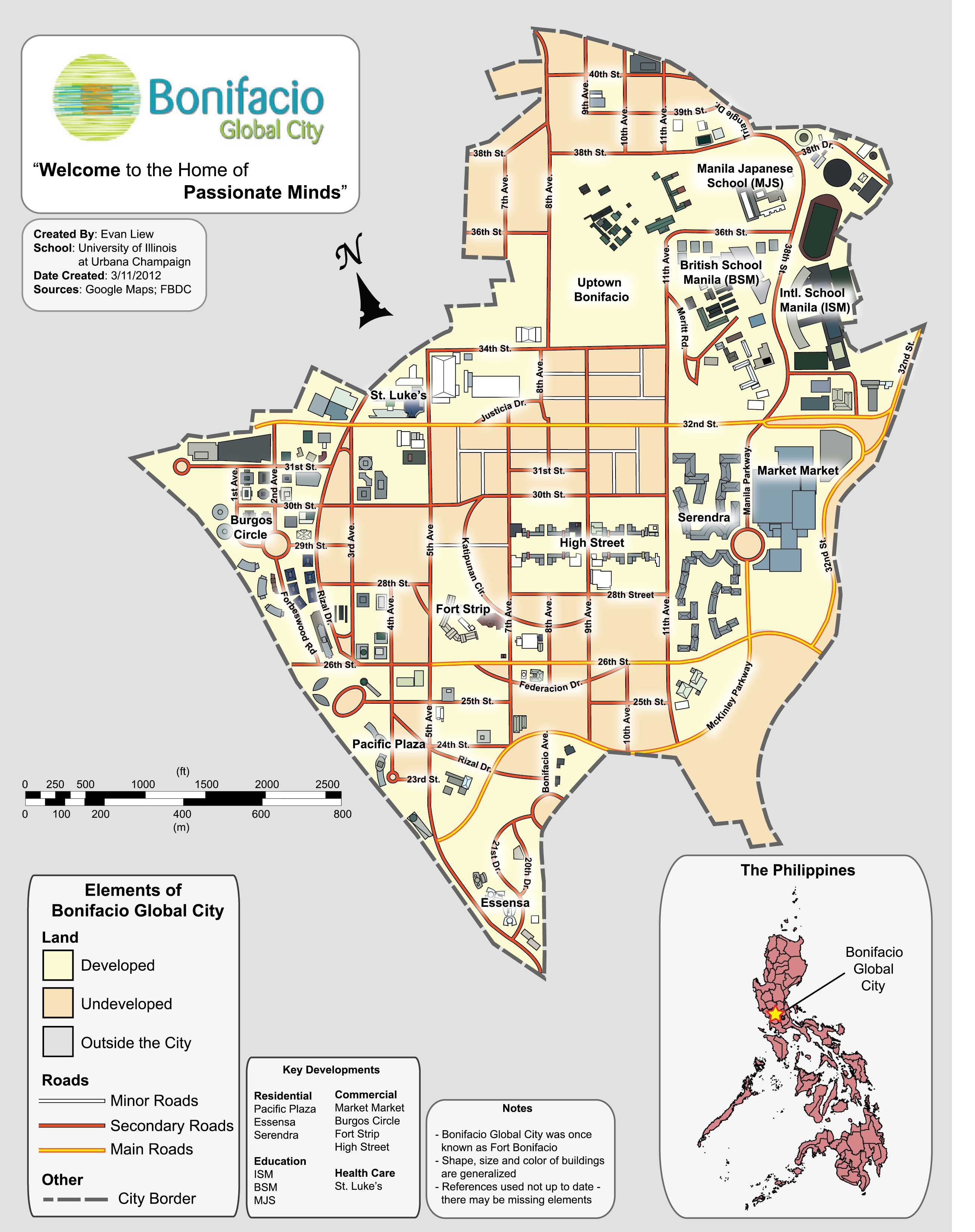 This is a reference map of Bonifacio Global City